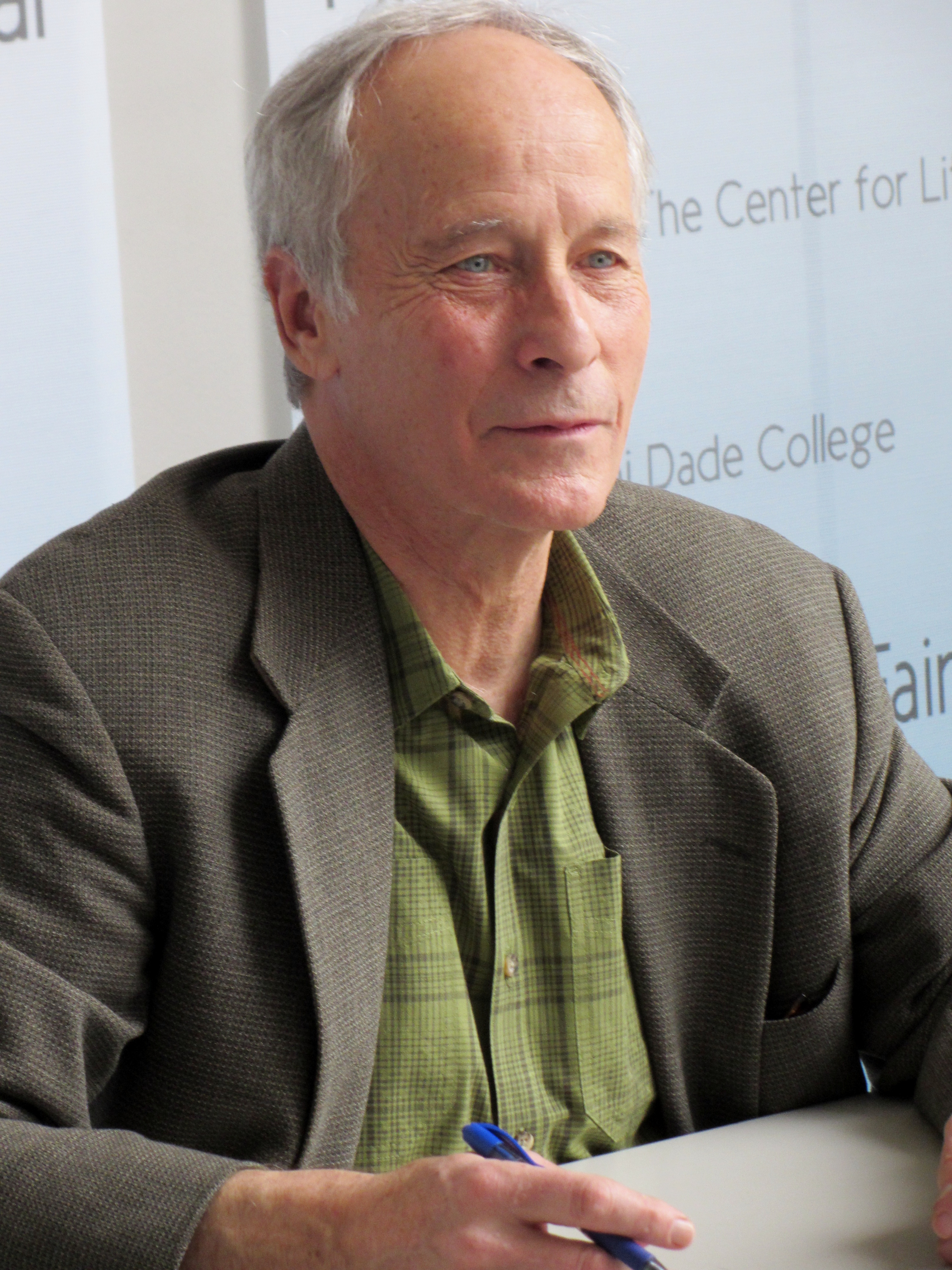 American writer Richard Ford at the Miami Book Fair International 2014